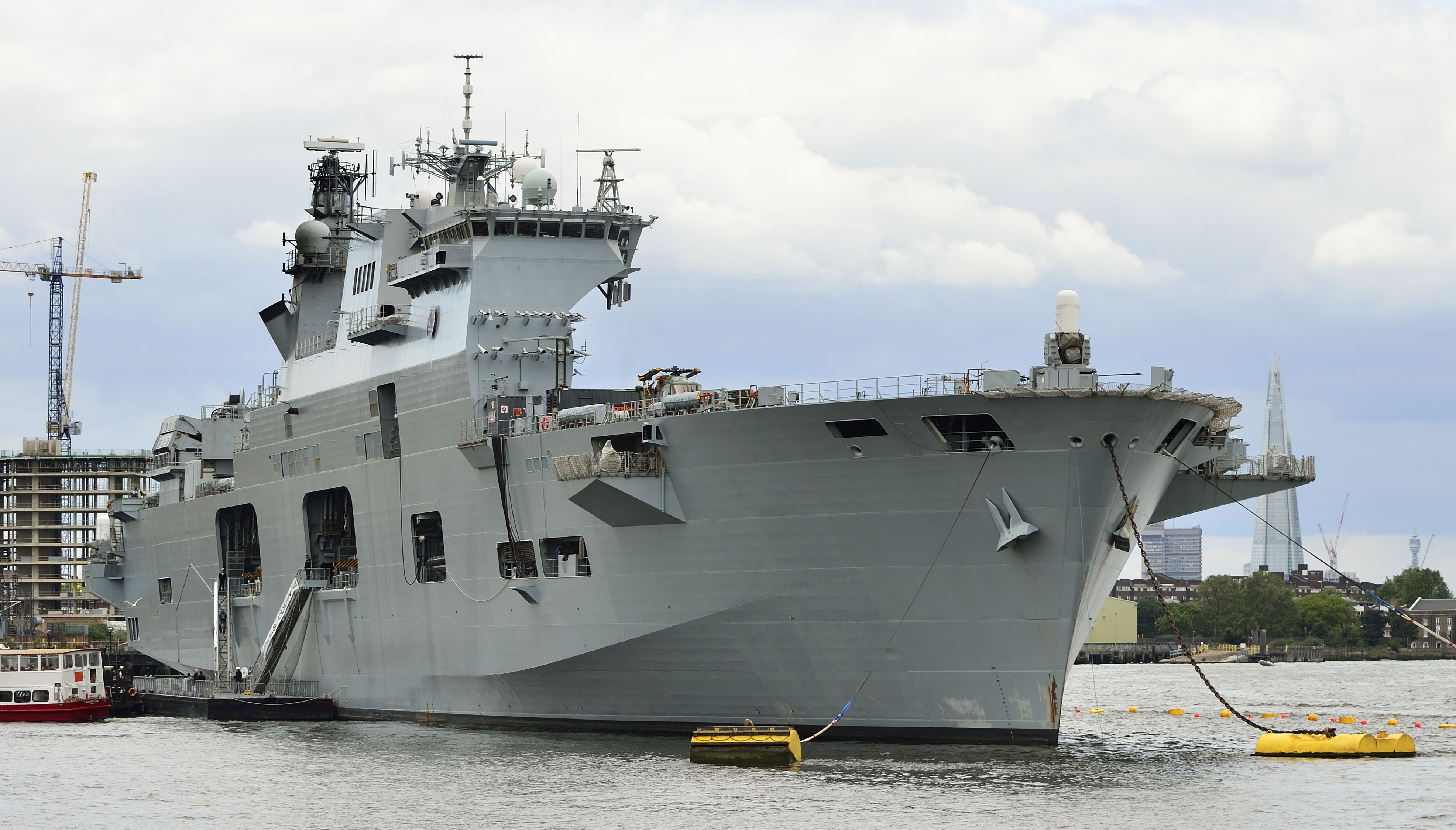 HMS Ocean, moored in Greenwich, London for the 2012 Olympic games